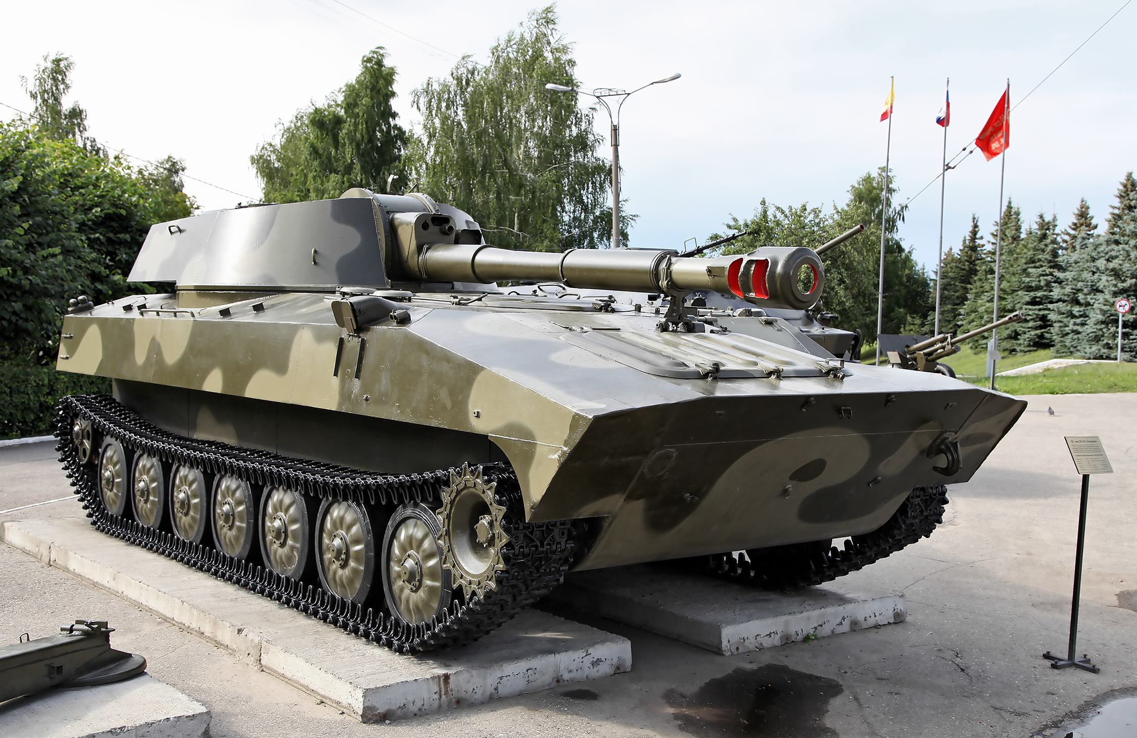 122mm 2S1 Gvozdika